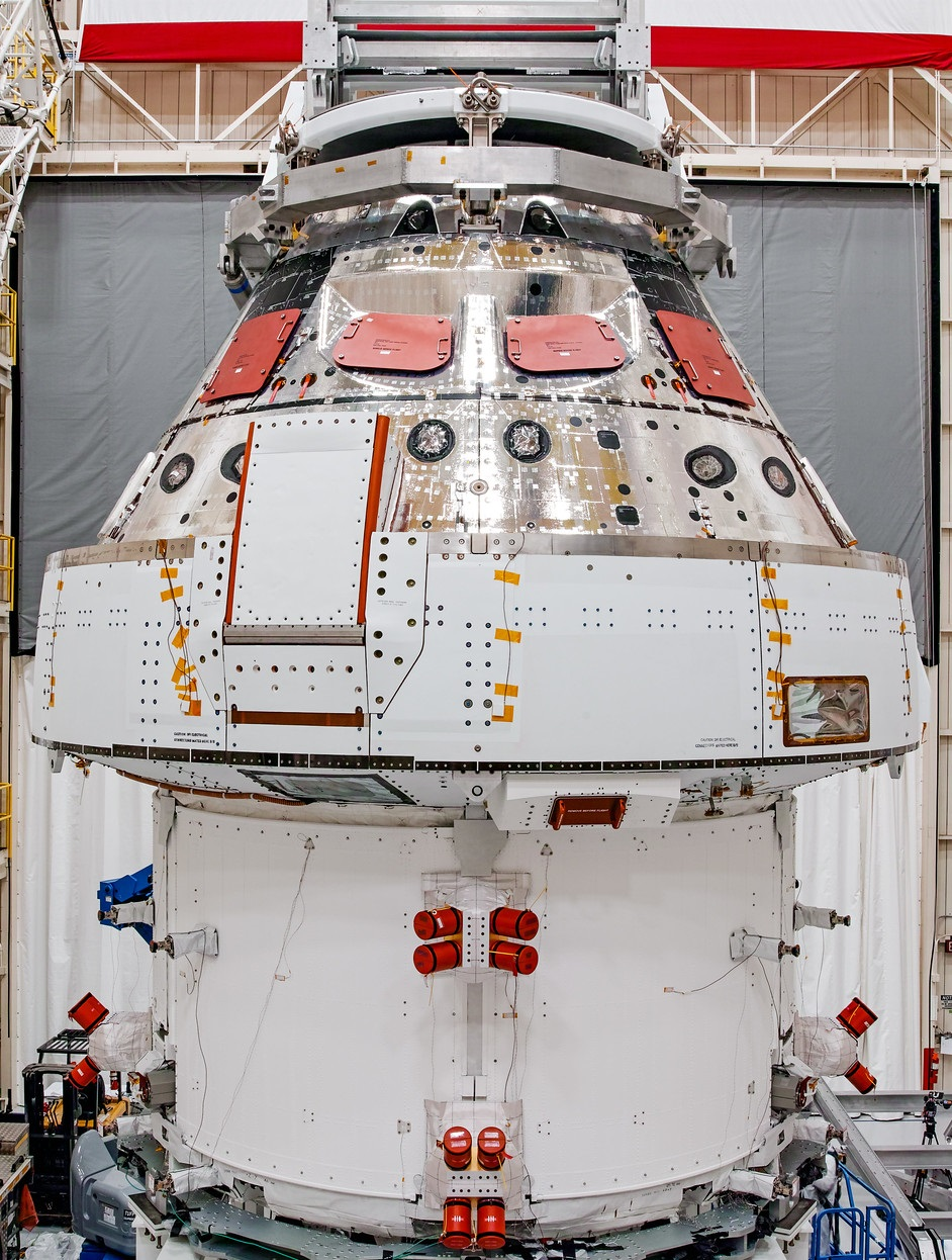 NASA’s Orion spacecraft–the crew module and European-built service module—is being lifted into a thermal cage and readied for its move on Tuesday into the vacuum chamber at NASA’s Plum Brook Station for testing. Testing begins with a 60-day thermal test, where the spacecraft will be subjected to temperatures ranging from -250 to 300-degrees Fahrenheit to ensure it can withstand the harsh environment of space during Artemis missions. These extreme temperatures simulate flying in-and-out of sunlight and shadow in space using Heat Flux, a specially-designed system that heats specific parts of the spacecraft at any given time. Orion will also be surrounded on all sides by a set of large panels, called a cryogenic-shroud, that will provide the cold background temperatures of space.